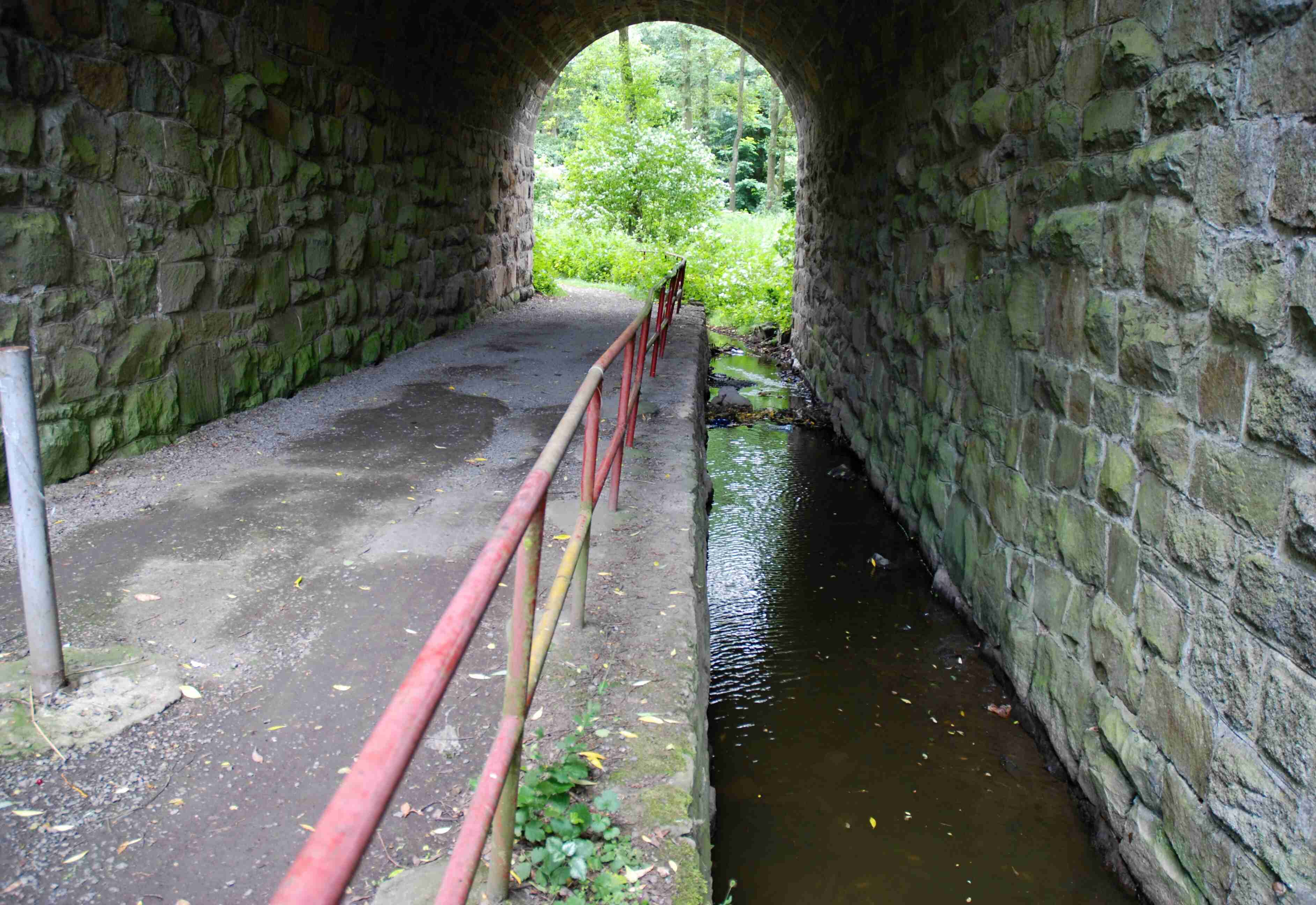 Kralovice Stream